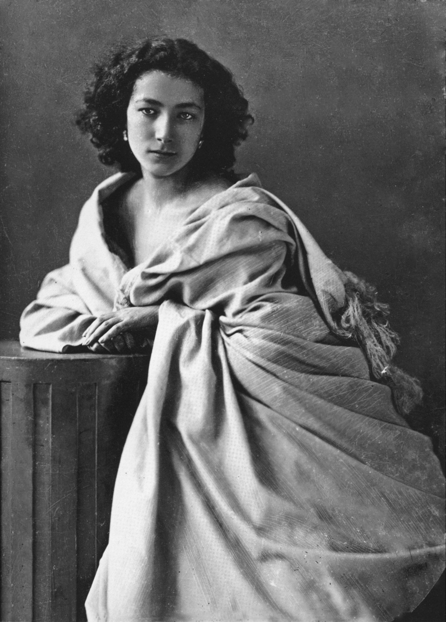 Photography of French actress Sarah Bernhardt by Félix Nadar